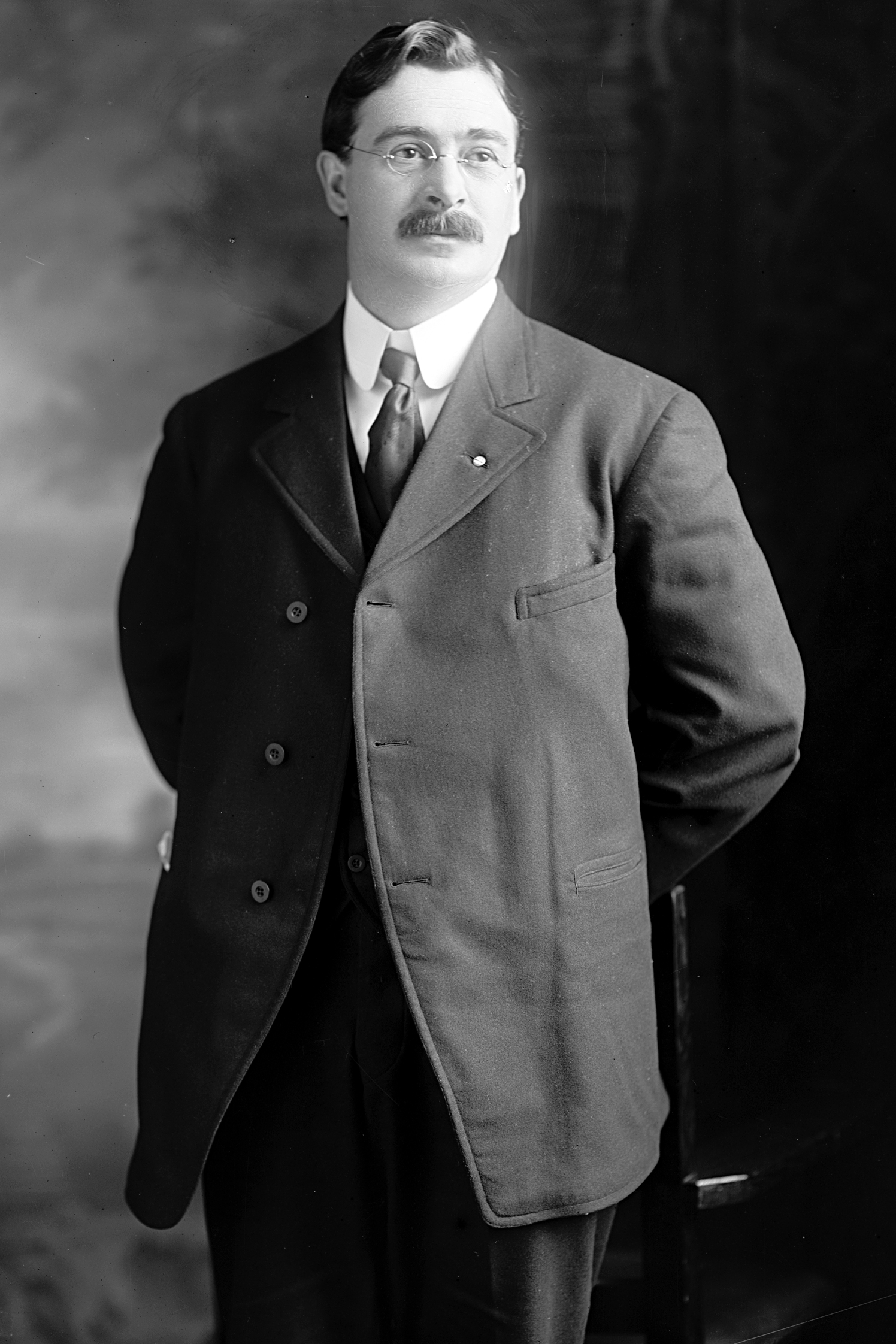 Thomas David Nicholls, US Representative from Pennsylvania